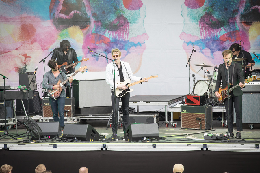 Spoon at the main stage in the Vigeland Park. The concert was part of Piknik i Parken and took place on 22. June 2017 in Oslo. Lineup: Britt Daniel (guitar and vocal), Jim Eno (drums), Rob Pope (bass guitar), Alex Fischel (keyboard) and Eric Harvey (guitar).